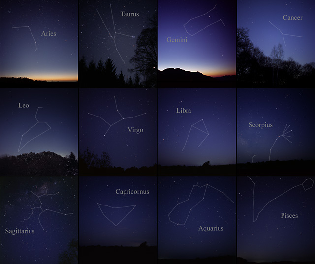 Astrophotos of the twelve classical constellations of the Zodiac. Lines and Labels were added.